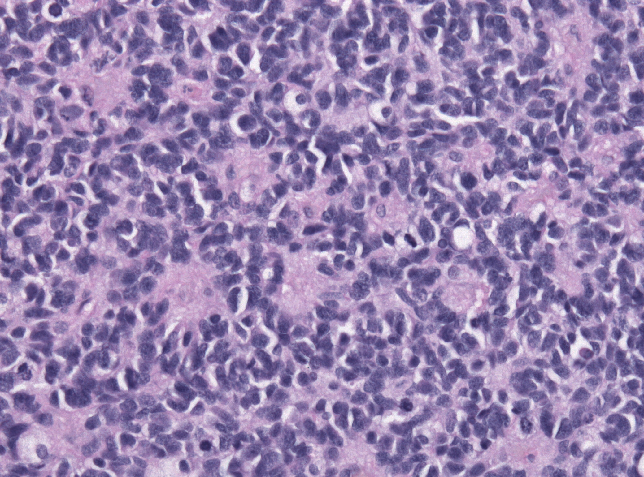 Medulloblastoma with rosettes